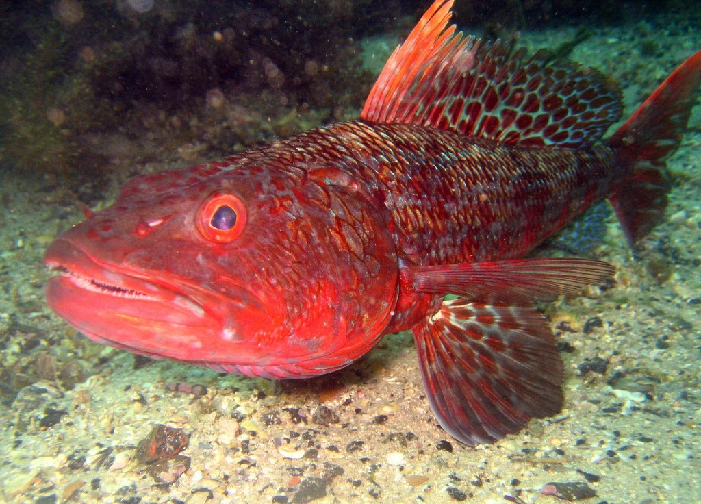 Portrait of a Sergeant Baker (Aulopus purpurissatus). Fairy Bower, Manly, NSW216655119